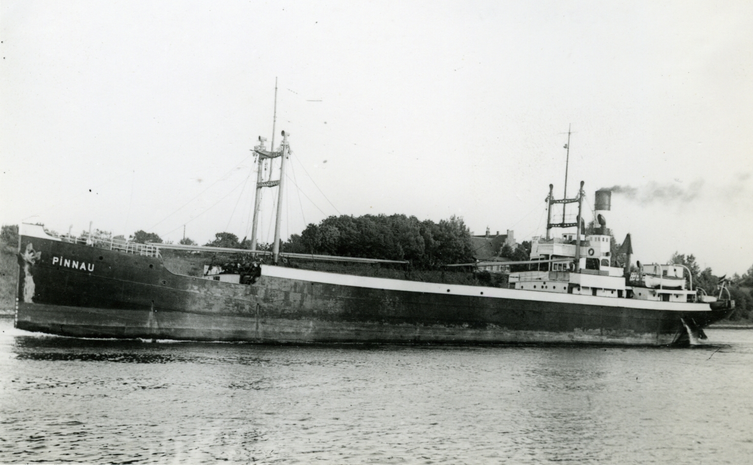 General cargo ship PINNAU built at Schiffswerft Nobiskrug, Rendsburg, for Bugsier-, Reederei- und Bergungs AG, Hamburg (yard № 106, launched: 04-1922, delivered: 05-08-1922, 1193 GRT, 642 NRT, 76.21m), 1945 EMPIRE CONSTRUCTOR (Ministry of War Transport, London, Mgr. F.S. Dawson Ltd, London), 1947 ESTKON (Konnel Streamship Co. Ltd, Hull, Mgr. Carlbom & Co. Ltd, Hull), 15-05-1958 laid up at Cardiff, 1959 scrapped at Newport, Monmouthshire; collection J. Robert Boman (1926-2002) owned by Sjöhistoriska museet.